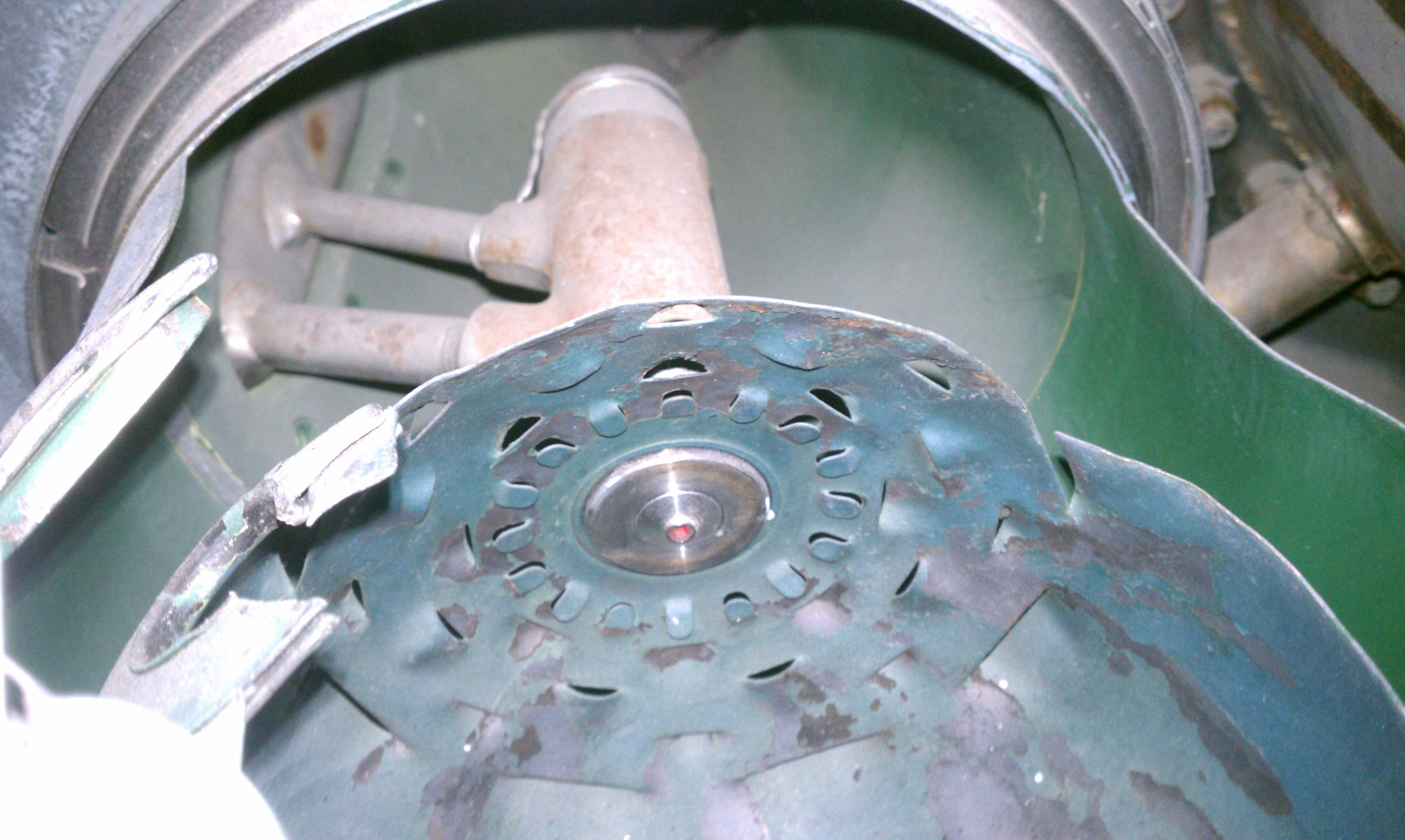 A cutaway view of the dome portion of the J-35-A-4 combustor. Taken from the display at the Southern Museum of Flight.